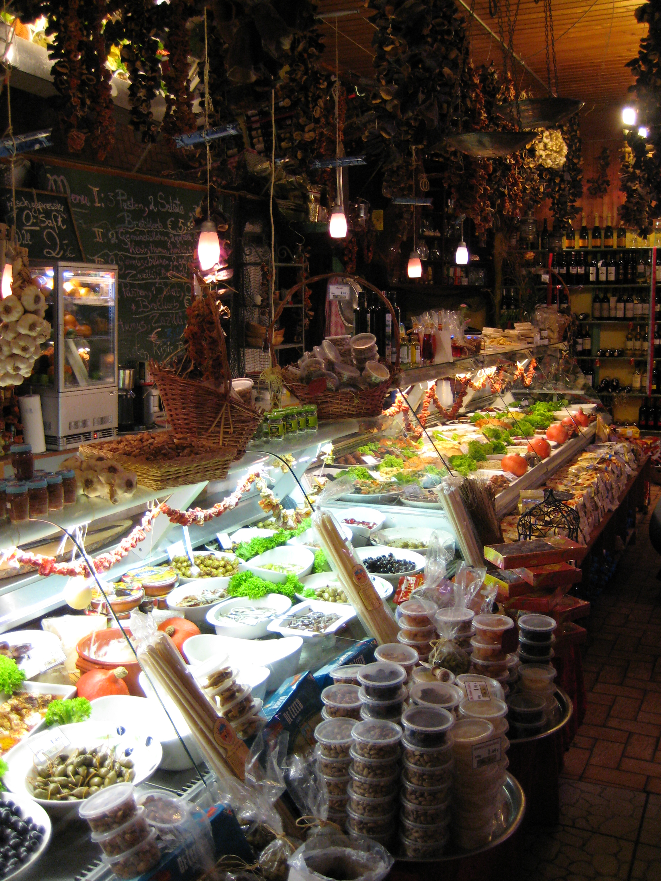 Deli „Knofi“, Bergmannstraße, Berlin